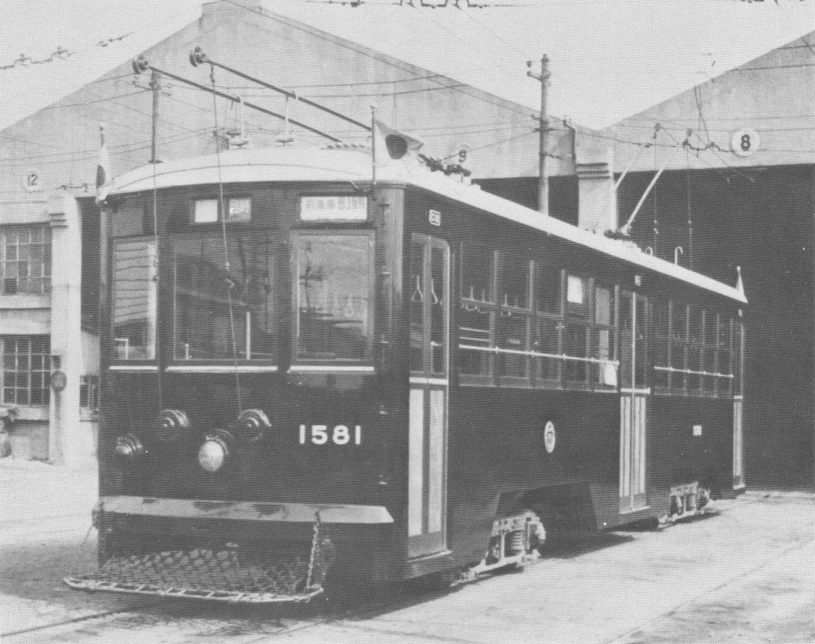 Osaka City Tram 1581.